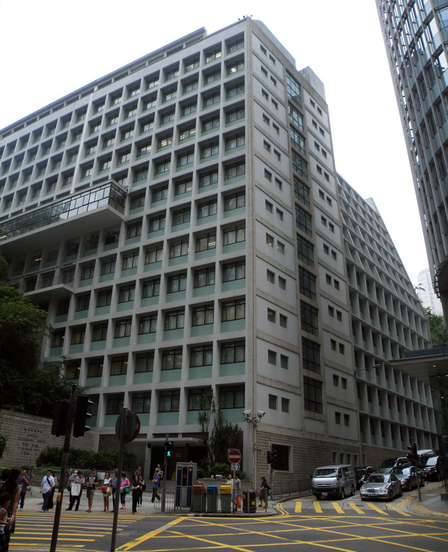 West Wing, Central Government Offices